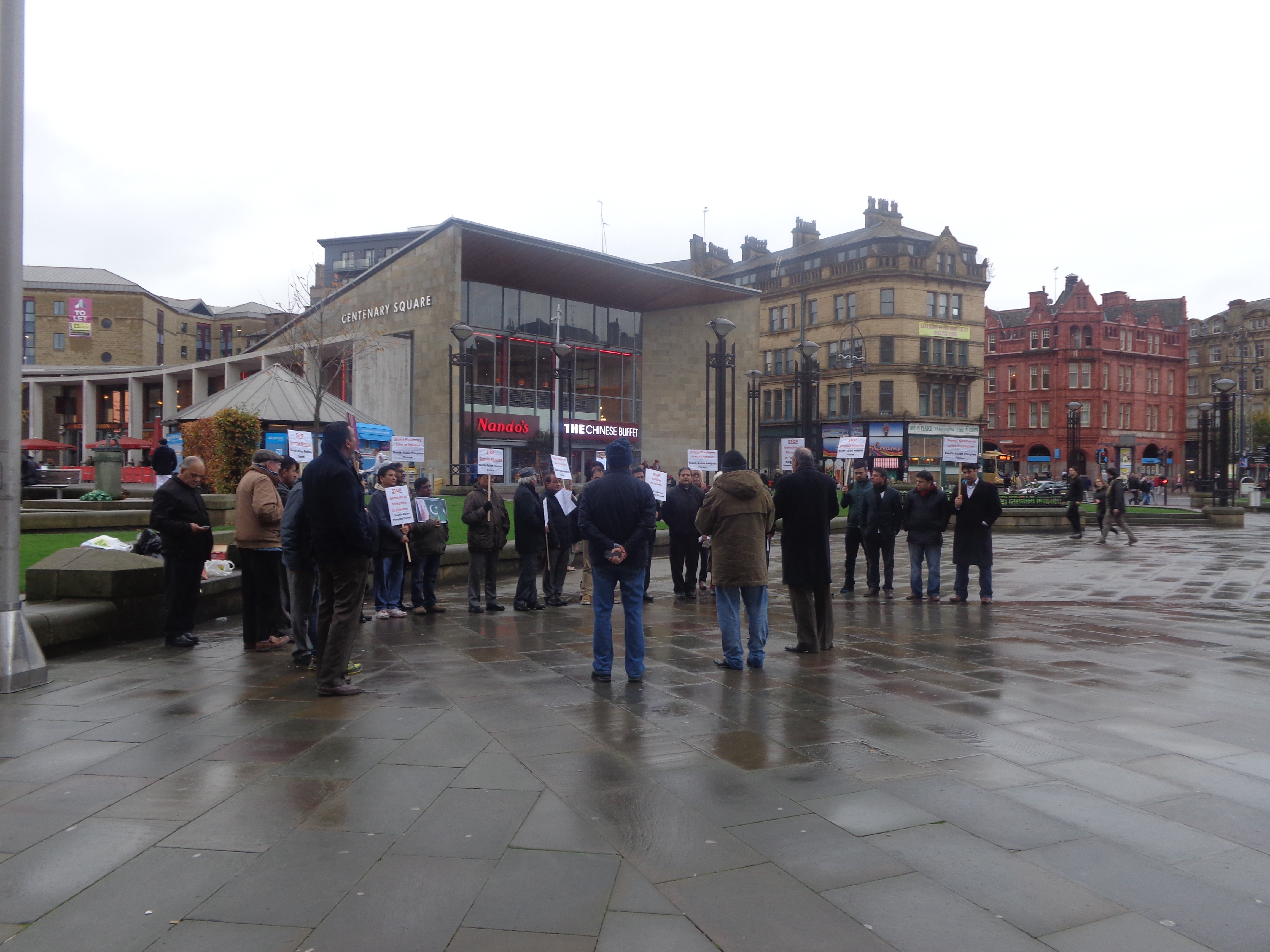 Anti-Pakistani blasphemy law protest, Centenary Square, Bradford, West Yorkshire. Taken on the afternoon of Saturday the 8th of November 2014.